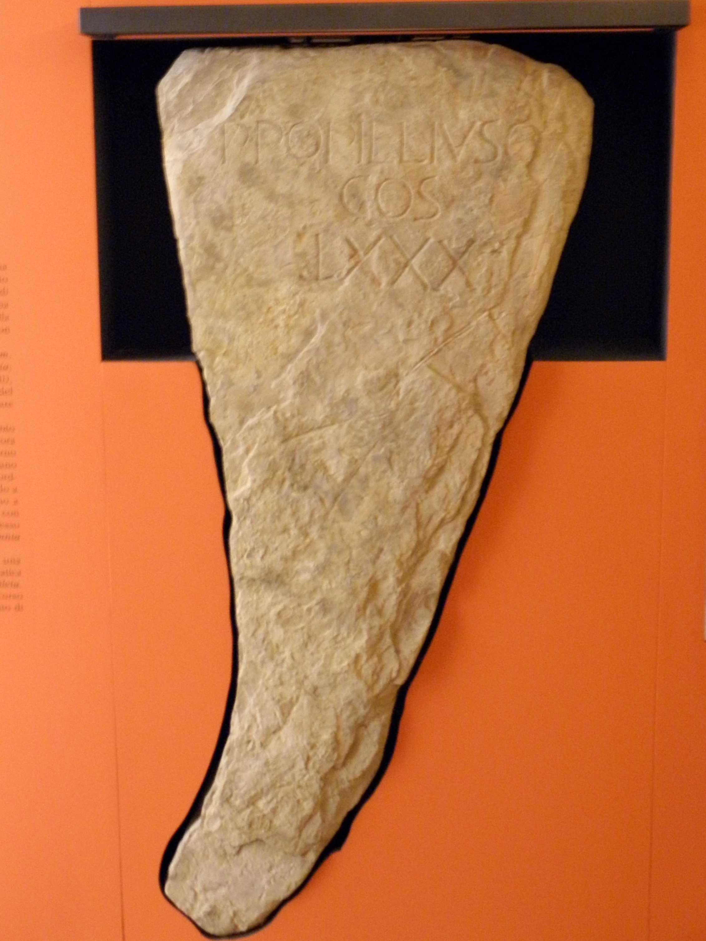 Ancient roman milestone in Adria Museum (Museo Nazionale di Adria), provence of Rovigo.